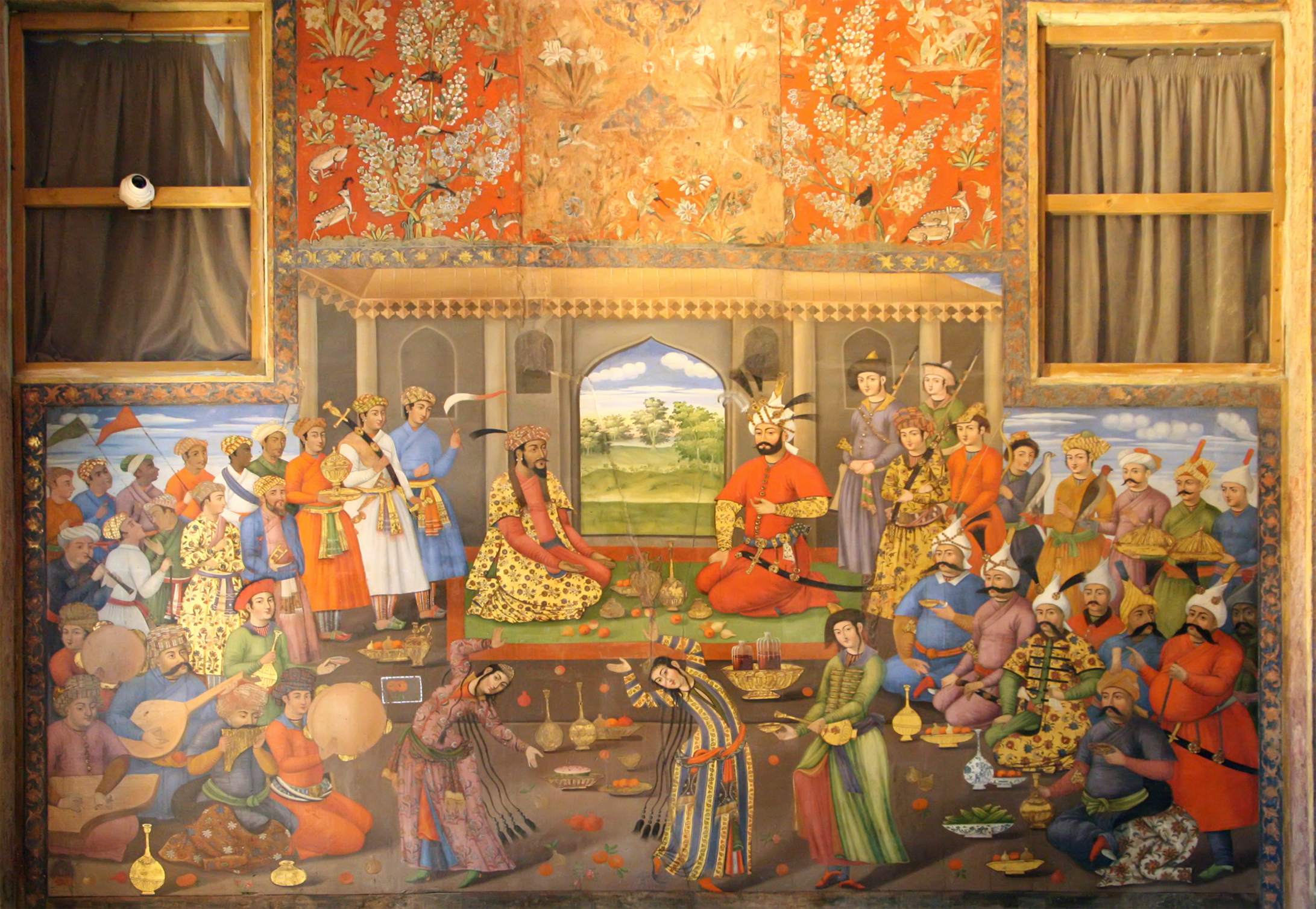 Shah Tahmasp I and Humayun. Novrouz festival From Chehel Sotoun Palace, Isfahan.